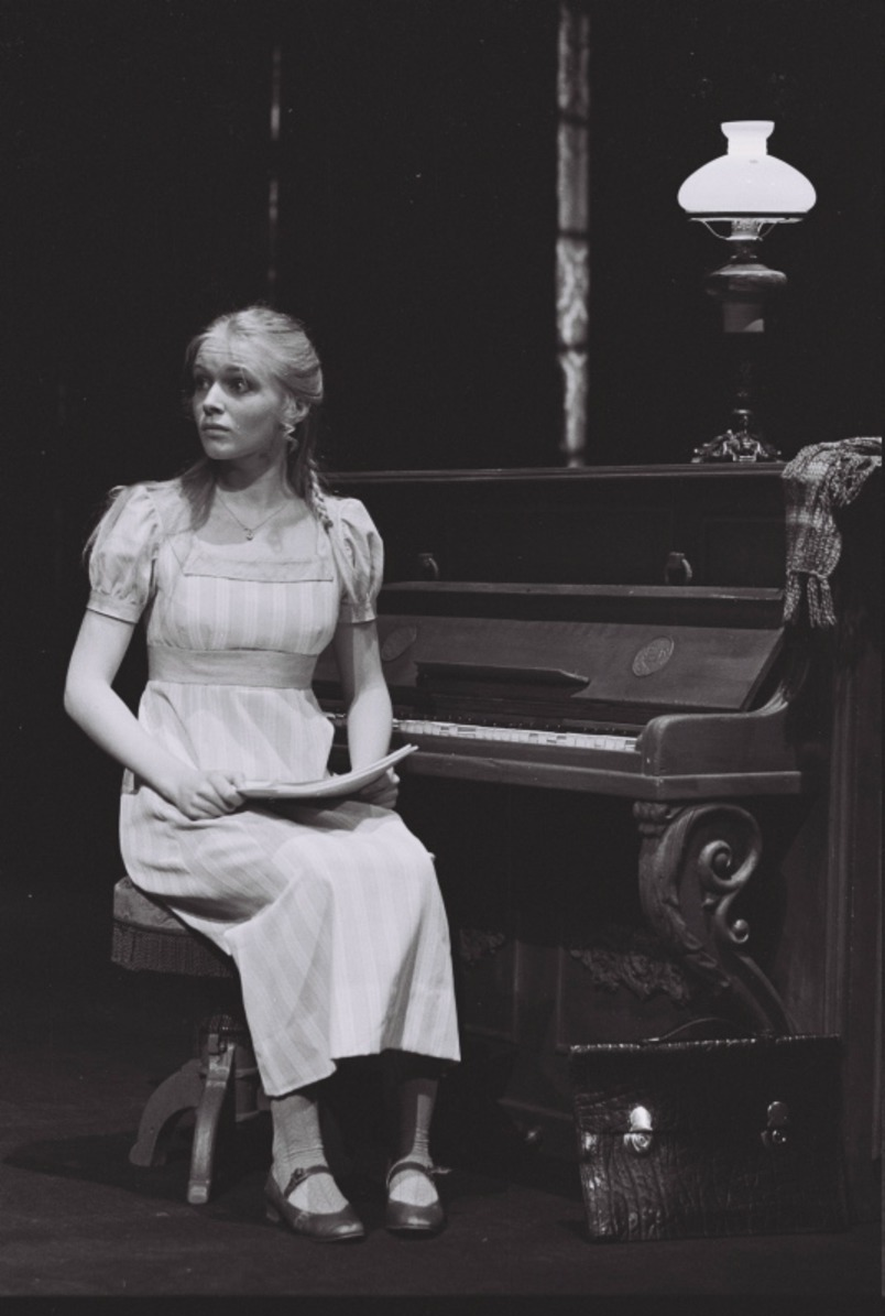 Norwegian actress Linn Stokke (born 1961) as Frida Foldal in a 1979 performance of "John Gabriel Borkman" by Henrik Ibsen at Nationaltheatret